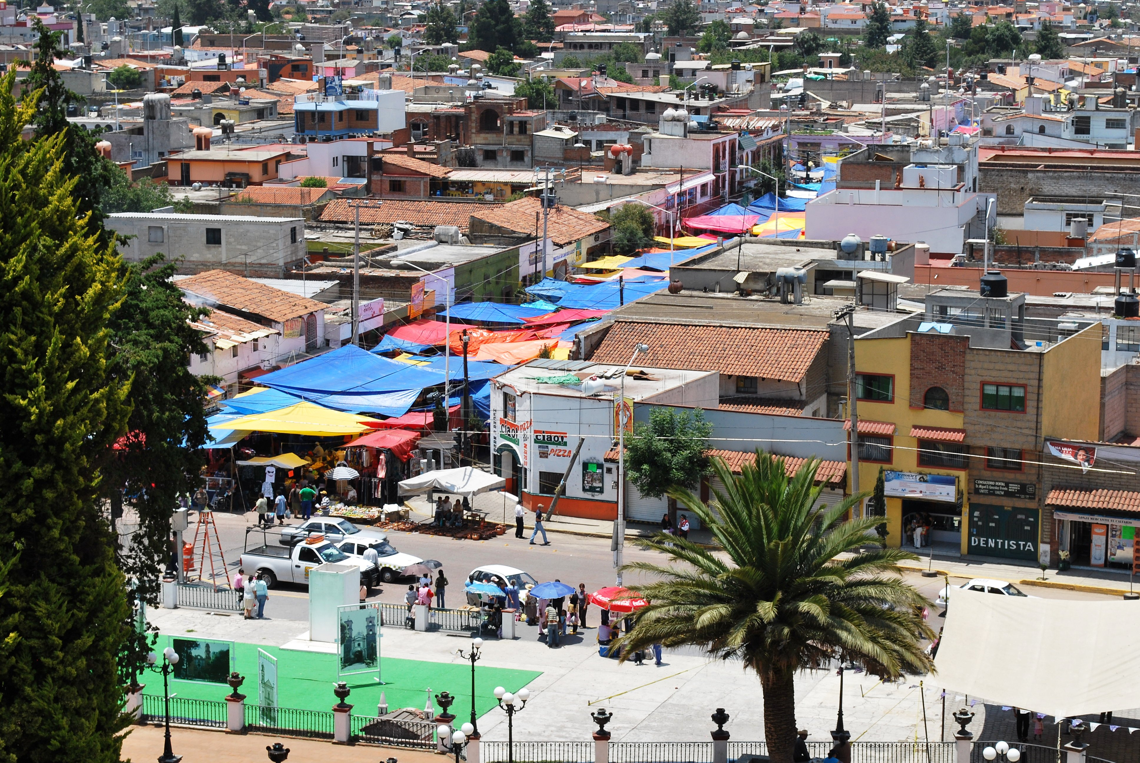 Market day in Metepec, Mexico State. A "tianguis" is set up. All that is seen here is not even a quarter of how far this temporary market extends.